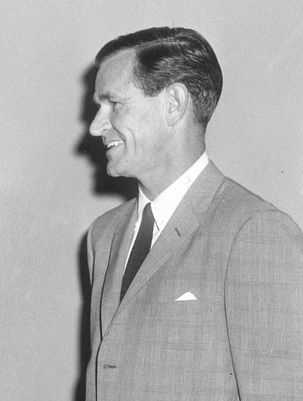 Phil Graham, co-owner of the Washington Post, at a luncheon celebrating the release of The Diary and Autobiography of John Adams, a publication of the first four volumes of the Adams Family Papers. Statler Hilton Hotel, Washington, D.C.